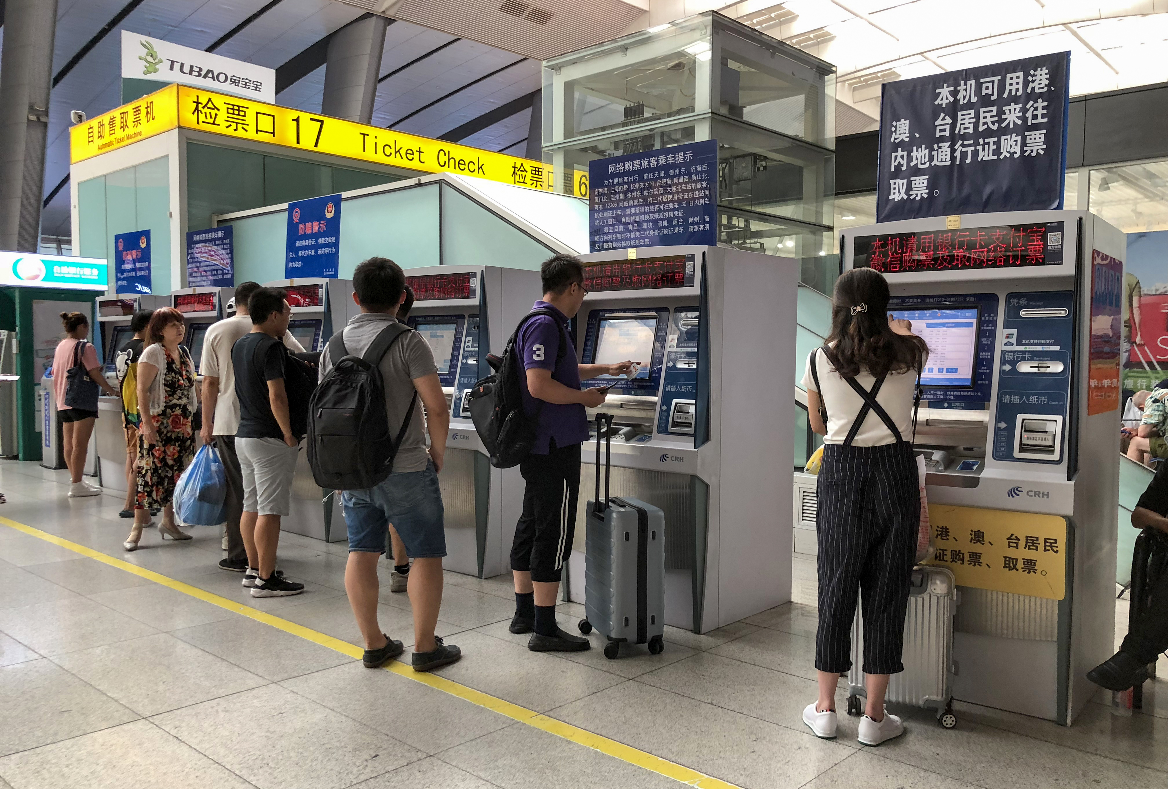 Still, only TVM No. 6 and No. 40 supports entry-exit pass for Hong Kong/Macau/Taiwan residents.